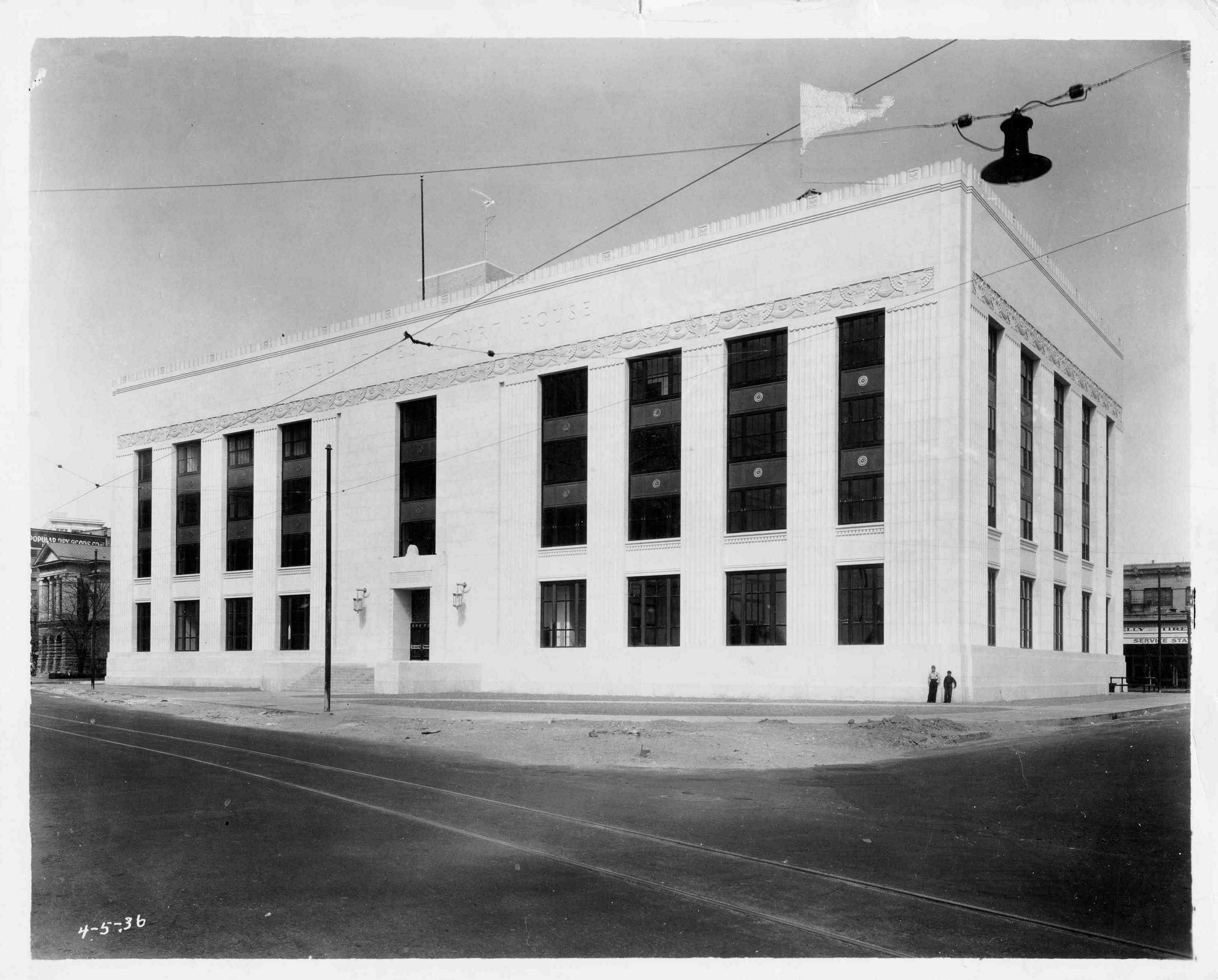 1936 Government photo of the US Court House in El Paso, Texas. "Copyright Holder" listed as NA.